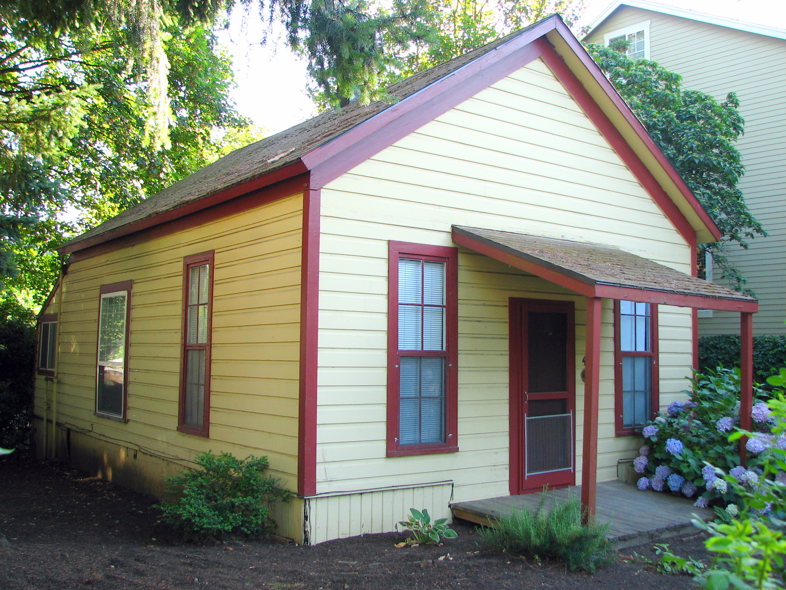 The historic Iron Workers' Cottage, located at 40 Wilbur Street in Lake Oswego, Oregon, United States, is listed on the US National Register of Historic Places.